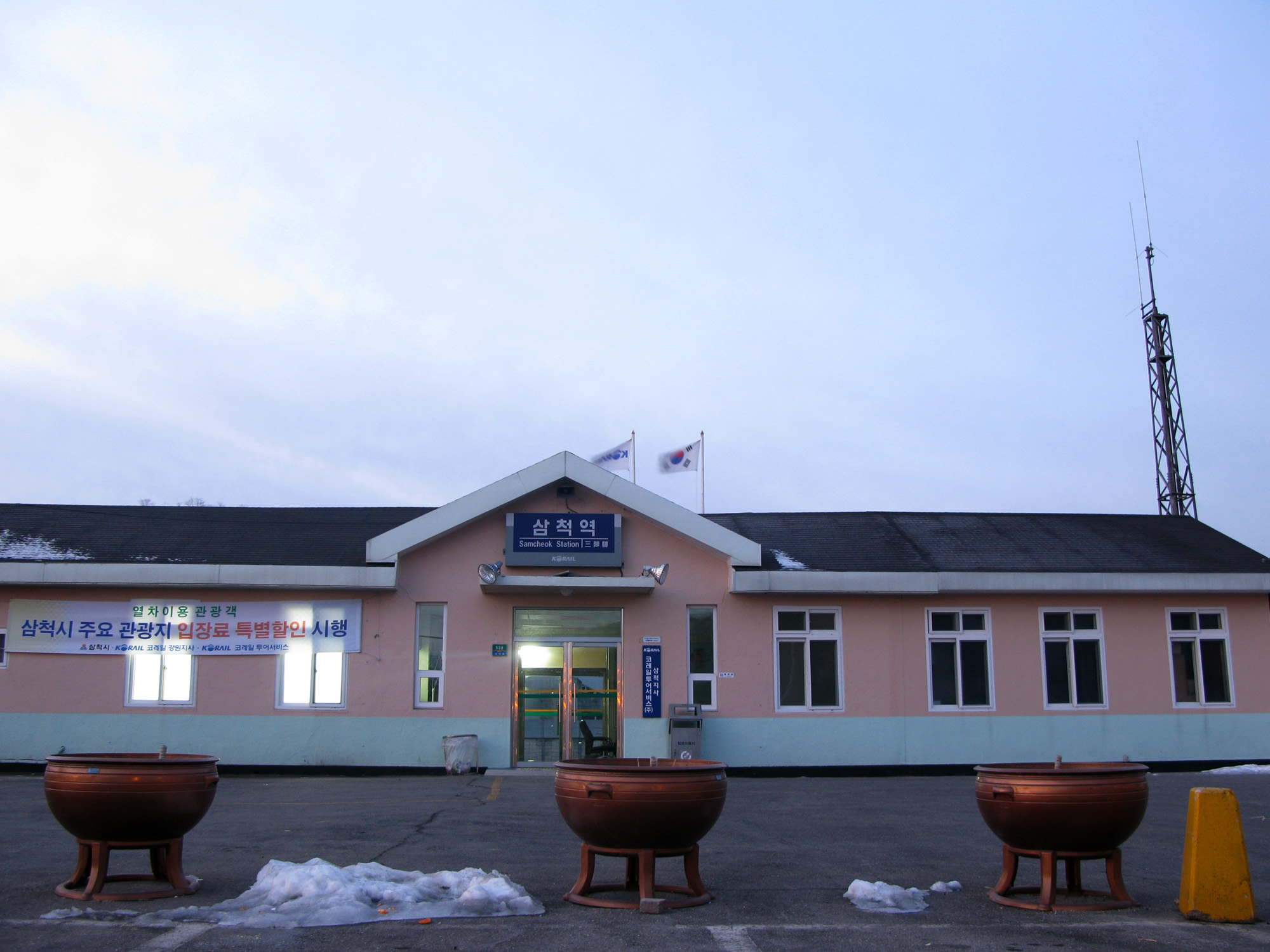 Samcheok Line Samcheok Station